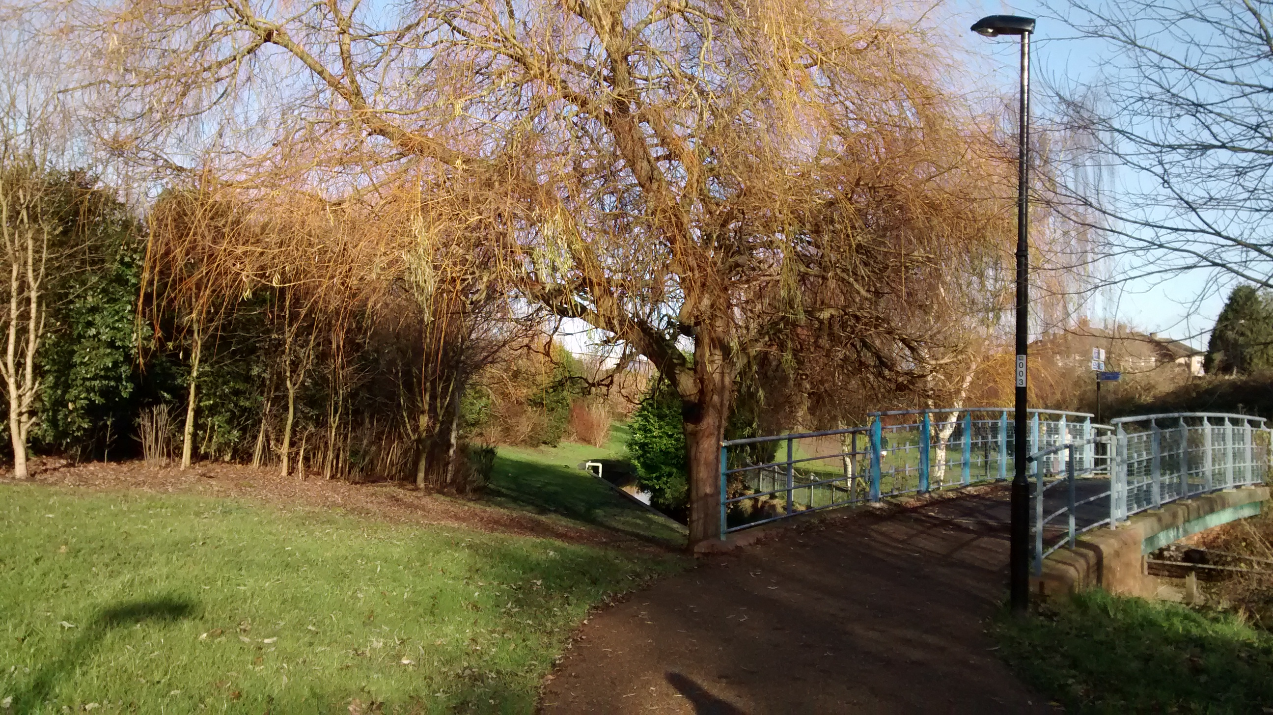 The "Waterlink Way" walking and cycling route in Sydenham, London.